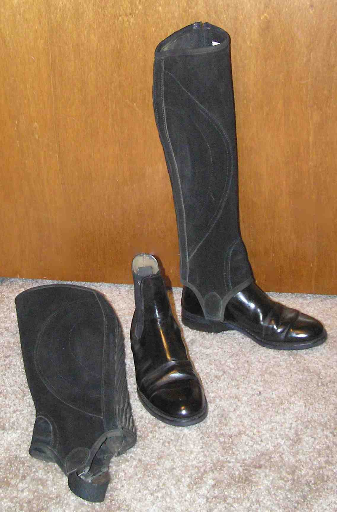 A pair of half chaps, showing how they fit on a paddock boot